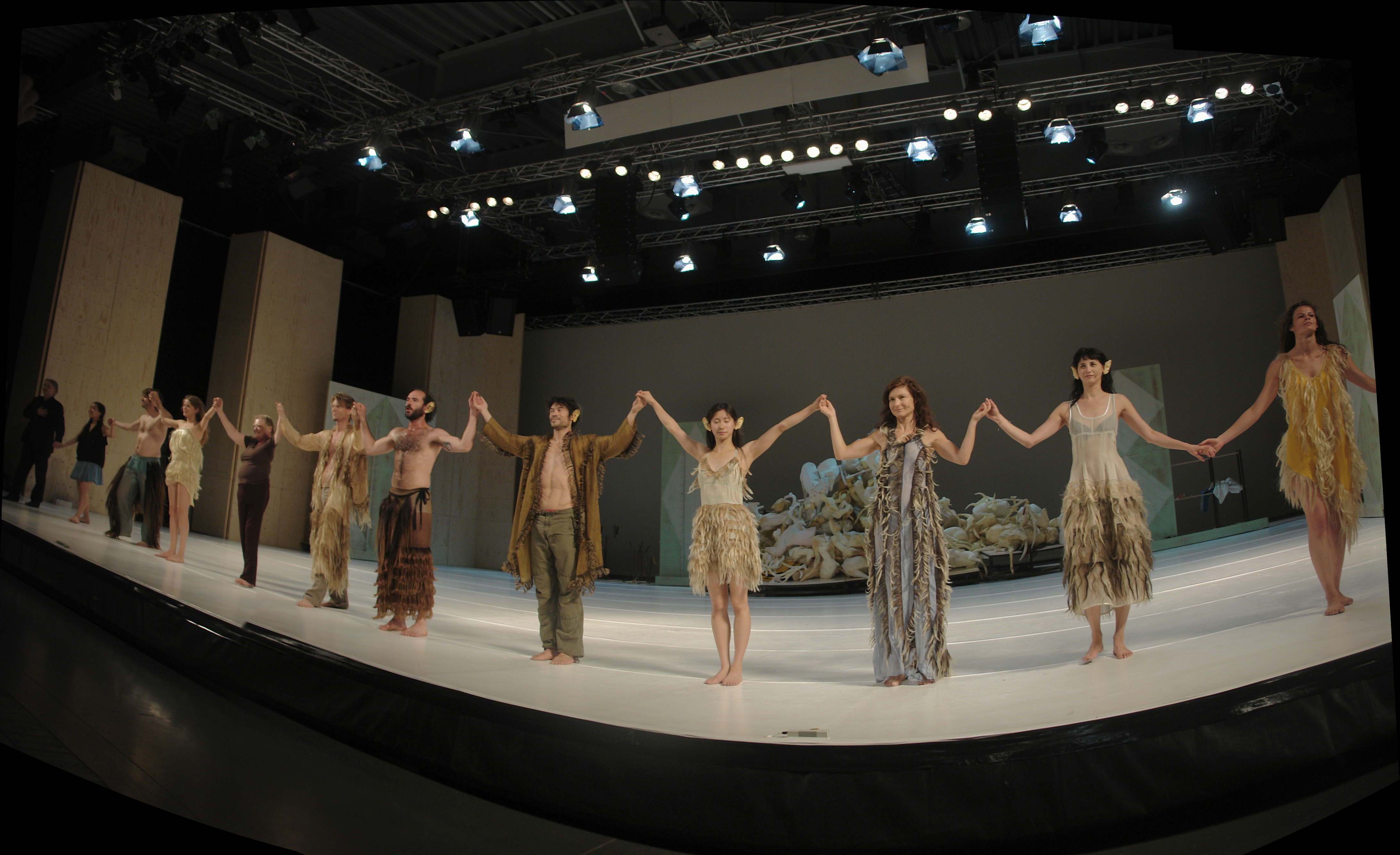 Jan Lauwers (far left) and his Needcompany after their performance on the Malta Festival in Poznań